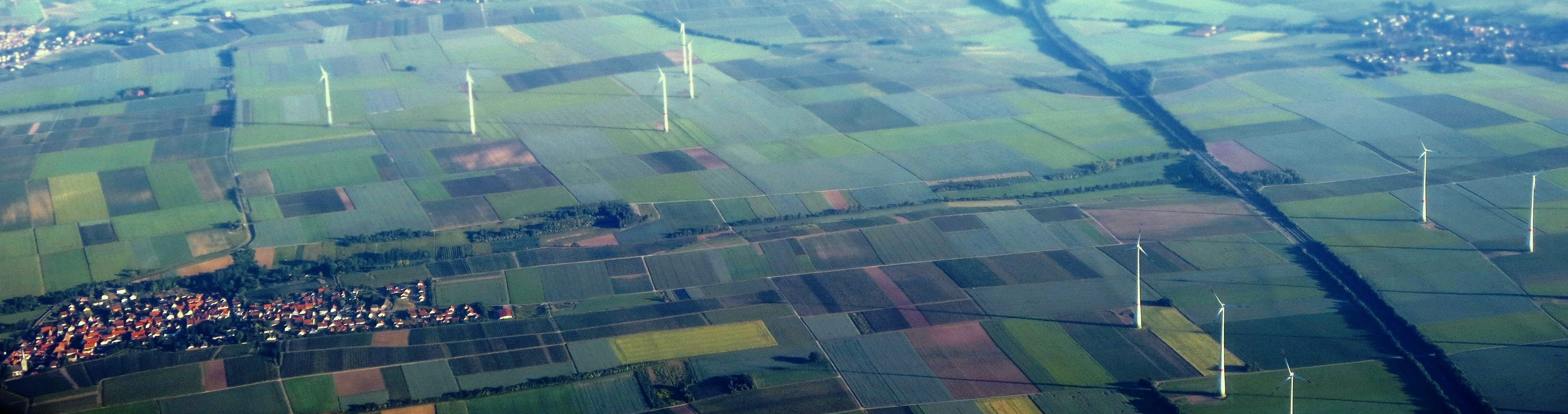 Aerial view over Gabsheim, Rheineland-Palatia (Rheinland-Pfalz), southwest Germany.